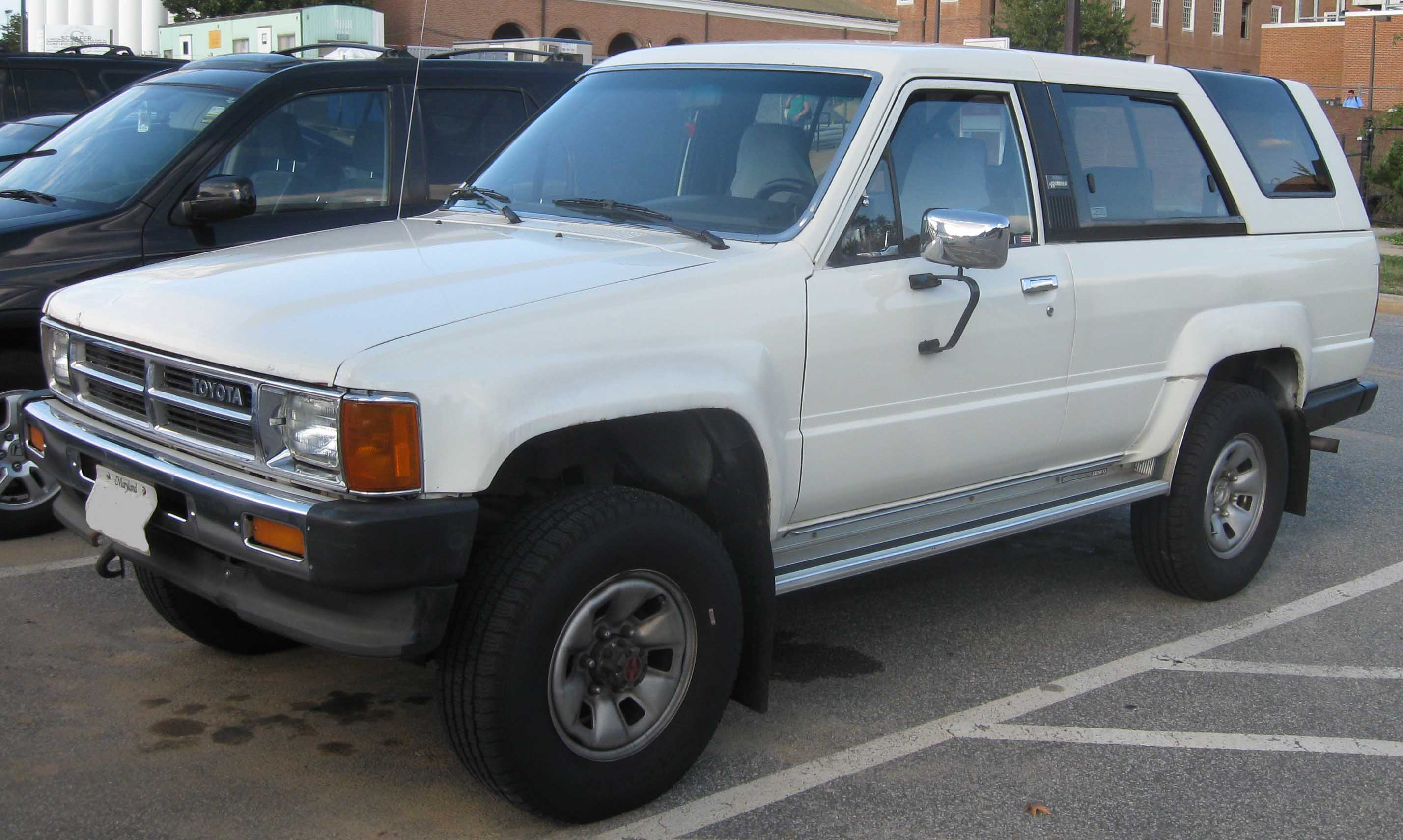 1987-1989 Toyota 4Runner photographed in College Park, Maryland, USA.